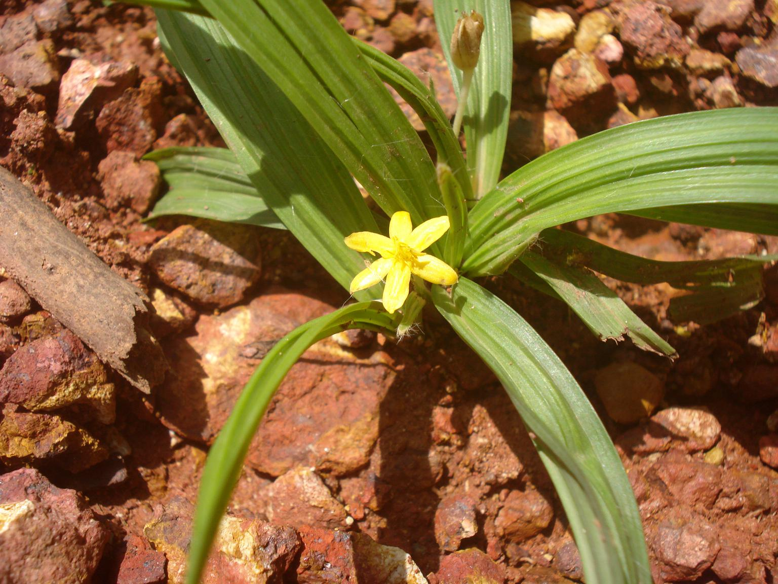 Curculigo orchioides